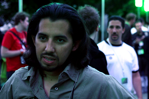 Brian Crecente of Kotaku at Electronic Entertainment Expo 2007. Image flipped and adjusted to remove some of the blue cast in Photoshop CS3.